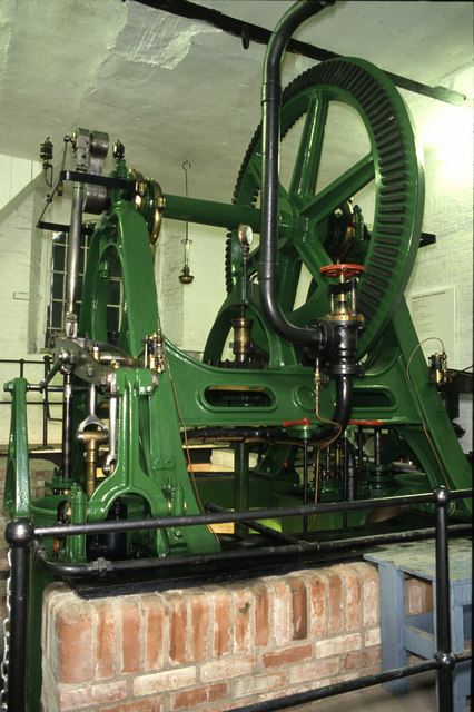 Steam pumping engine Westonzoyland Replaced an earlier beam engine. The centrifugal pump is an older device than people think. This one is 1861.